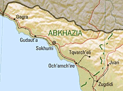 Summary map of Abkhazia as of 1999.